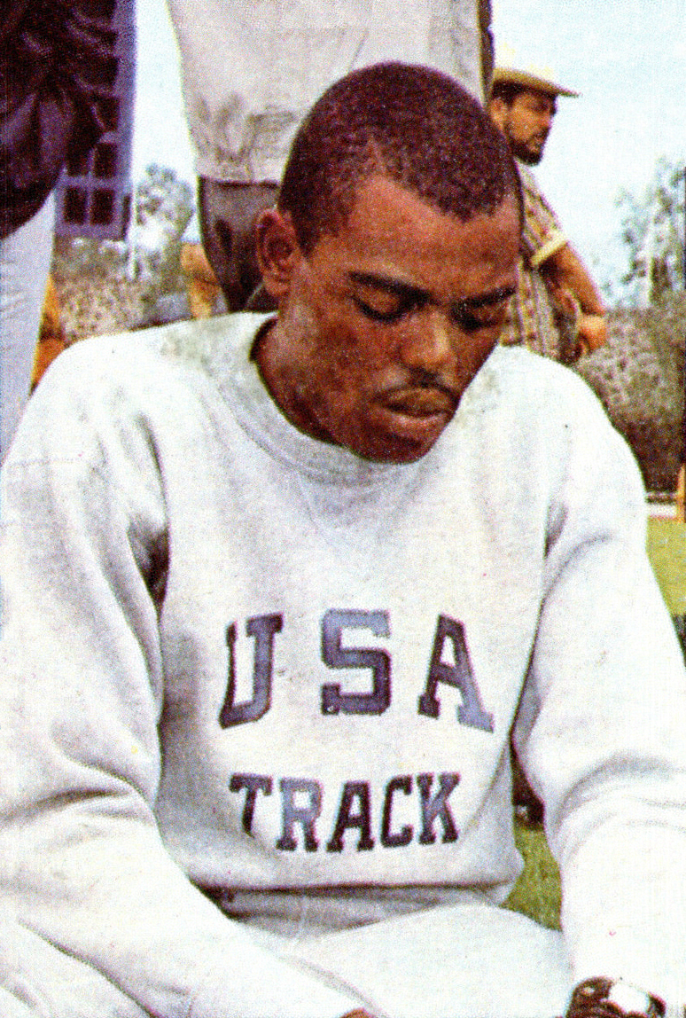 CAMPIONI DELLO SPORT 1969/70-n.44- W. DAVENPORT (USA)-ATLETICA LEGG-rec